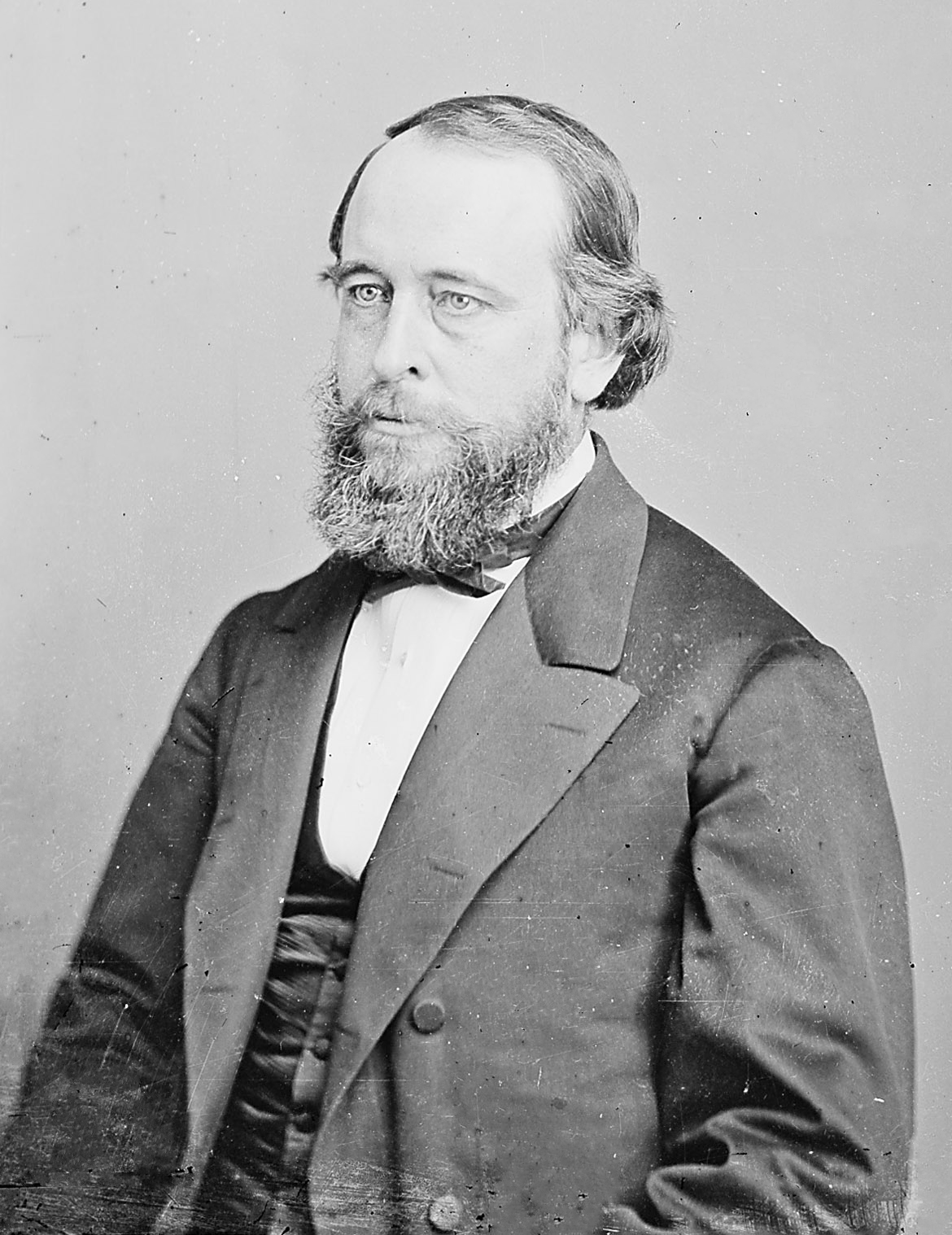 Congressman James S. Brown of Wisconsin